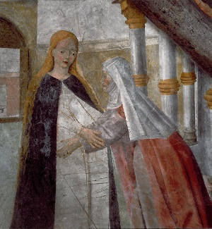 Sant'Anna Churh in Cercenasco